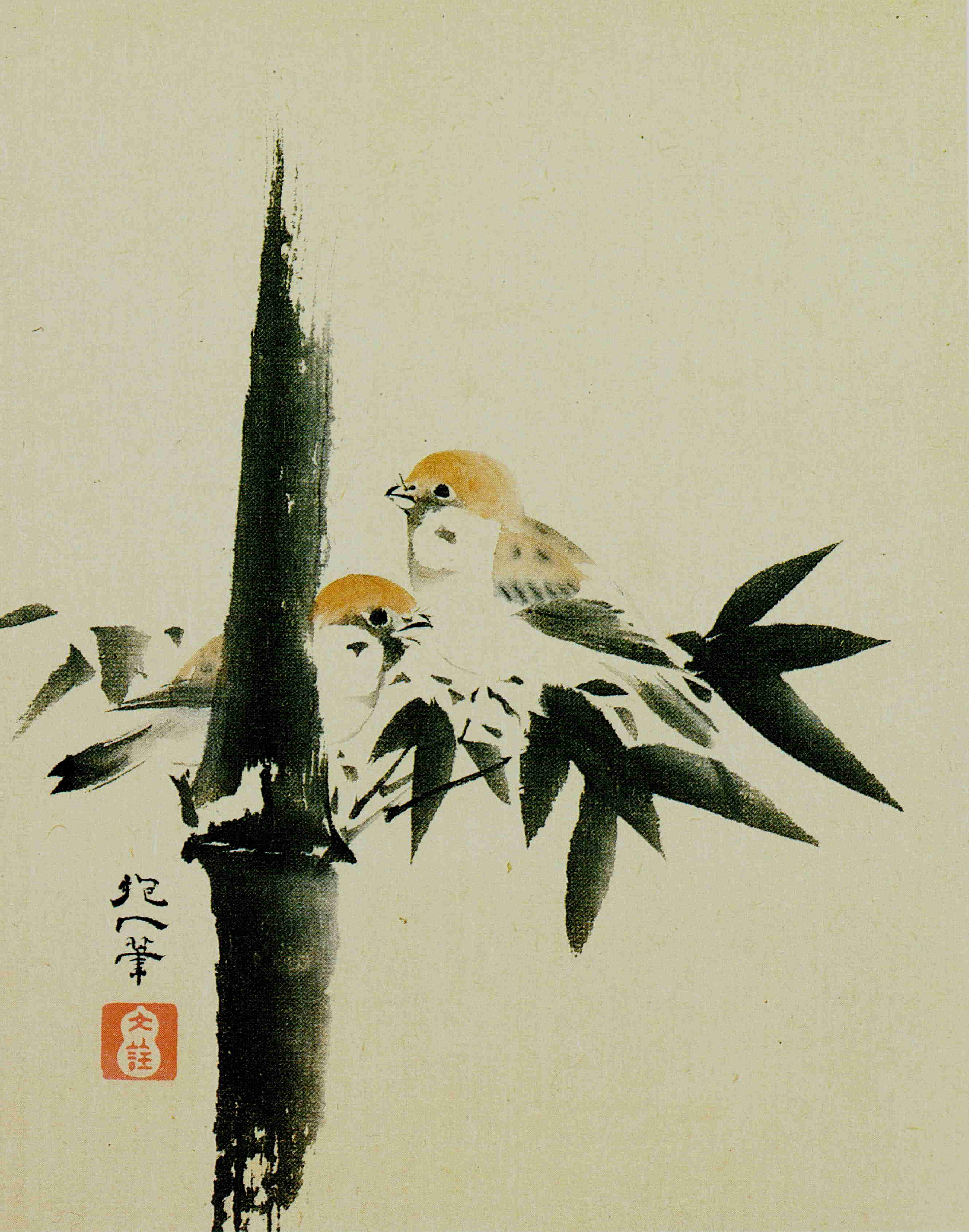 Album sheet Bamboo and sparrow